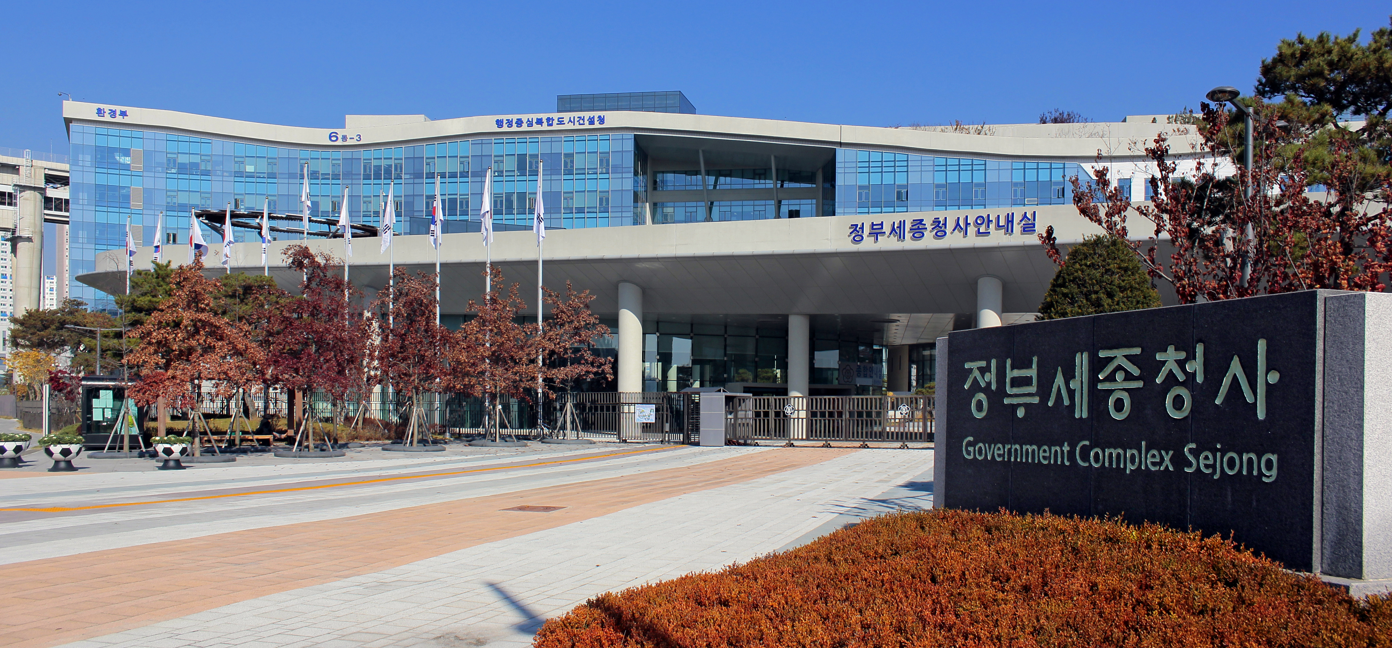 Nov 10 2014 @Sejong, South Korea